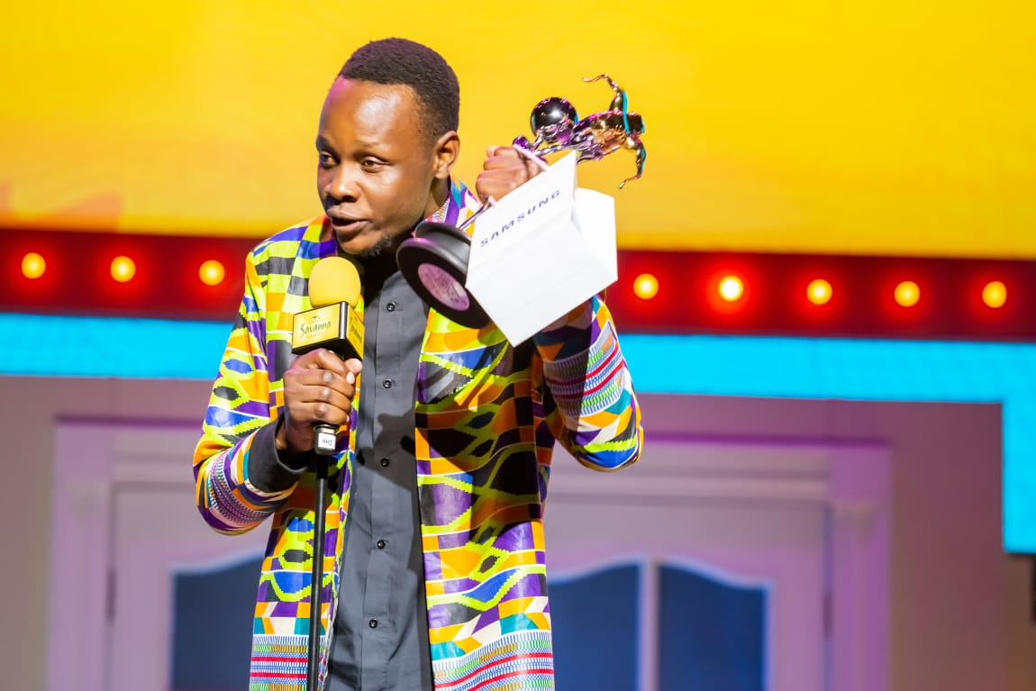 Long John The Comedian receiving an award